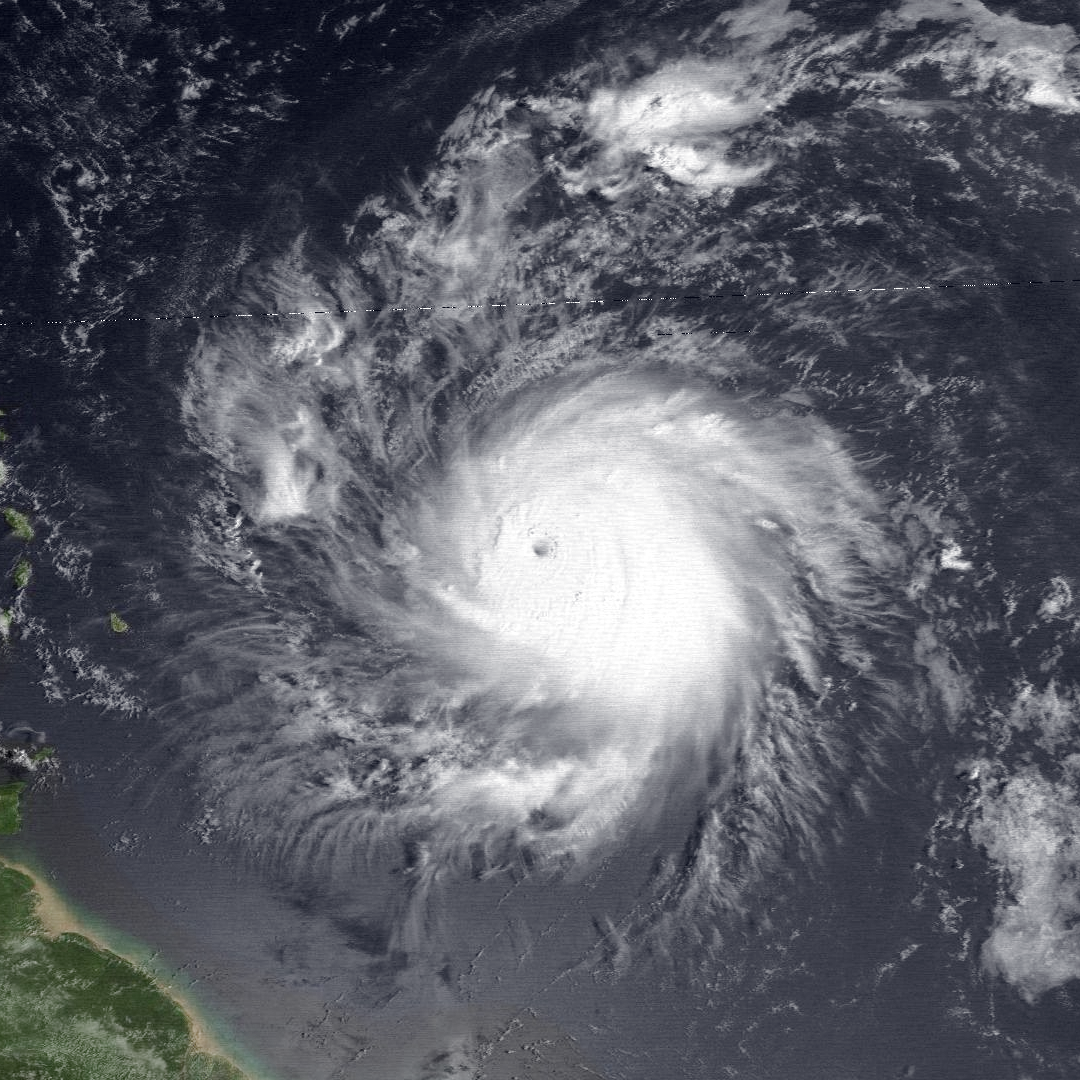 Hurricane Hugo at peak intensity east of the Windward Islands on September 15, 1989